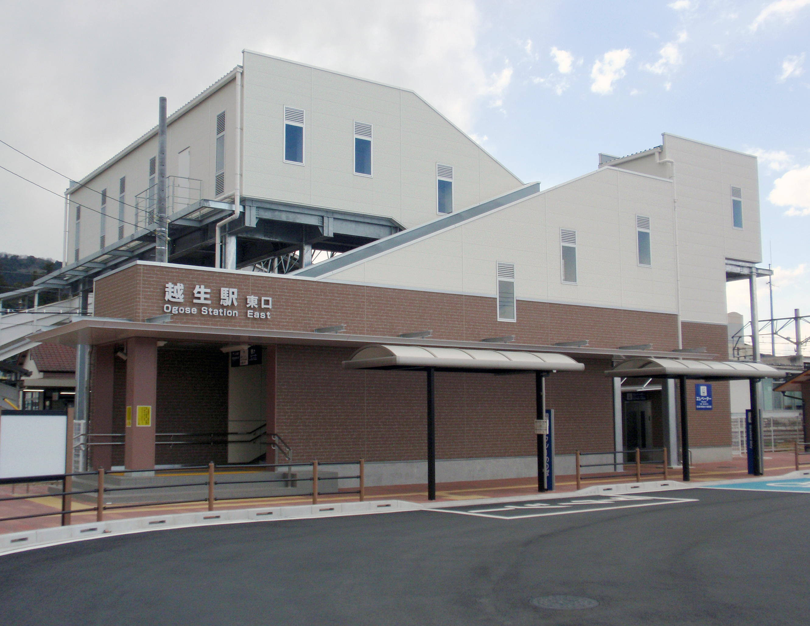 East entrance of Ogose Station (Ogose-town, Saitama-pref, Japan)